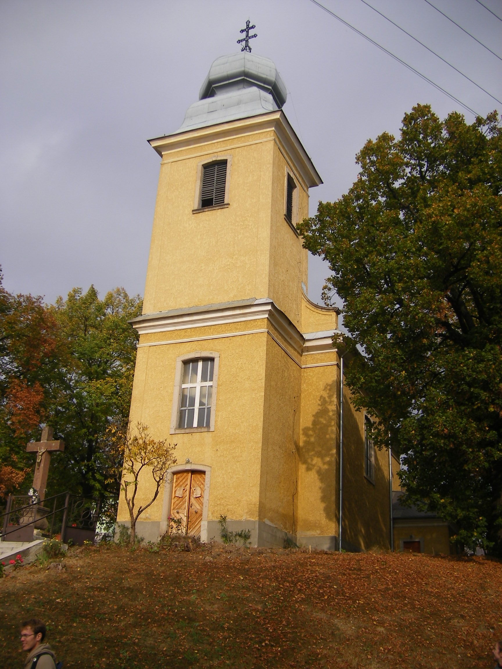 Bükkzsérc (Borsod-Abaúj-Zemplén), római katolikus templom This is a photo of a monument in Hungary. Identifier: 2708